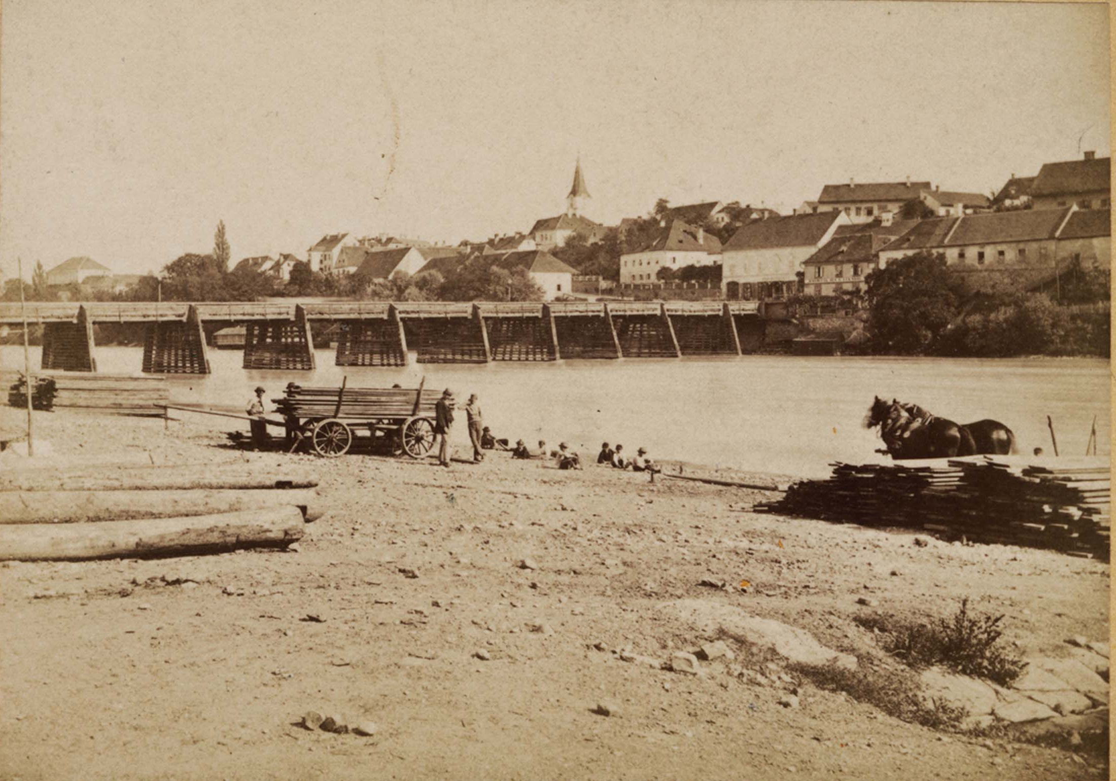 Postcard of Maribor.